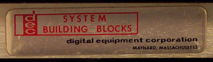 dec System Building Blocks logo